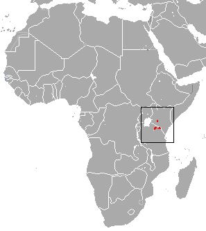 East African Highland Shrew (Crocidura allex) range